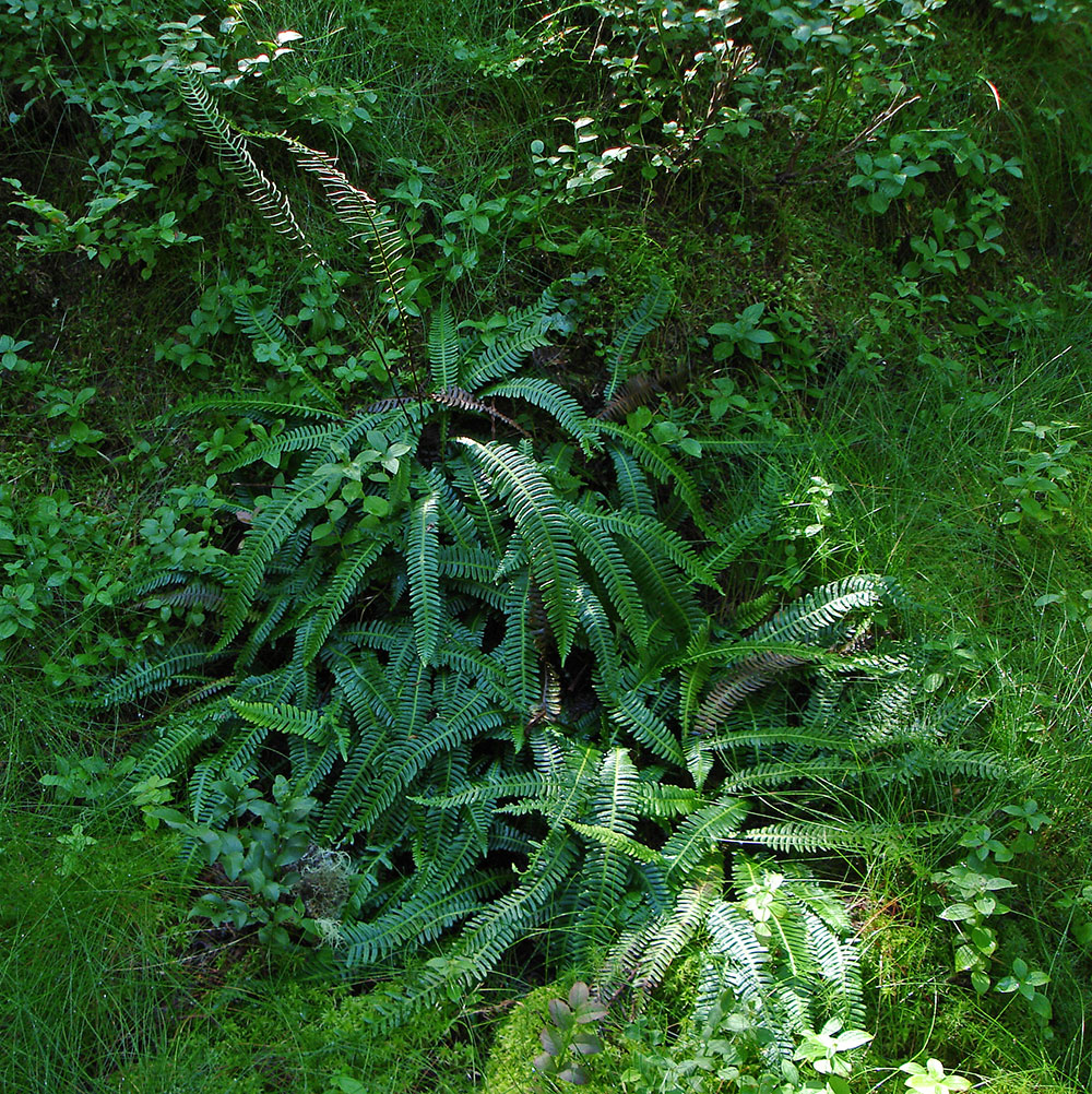 Deer fern (Blechnum spicant) in Västanåhöjden Nature Reserve, Örnsköldsvik Municipality, Sweden. If the picture is used outside of the Wikipedia project, indicate: "Photo: Gudrun Norstedt" or the equivalent text in the relevant language.